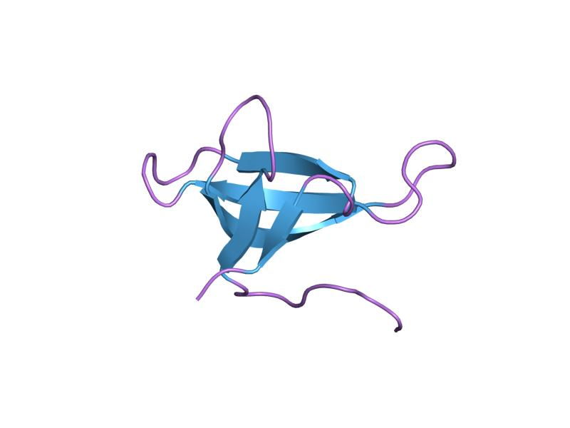 Cartoon representation of the molecular structure of protein registered with 2gqv code.